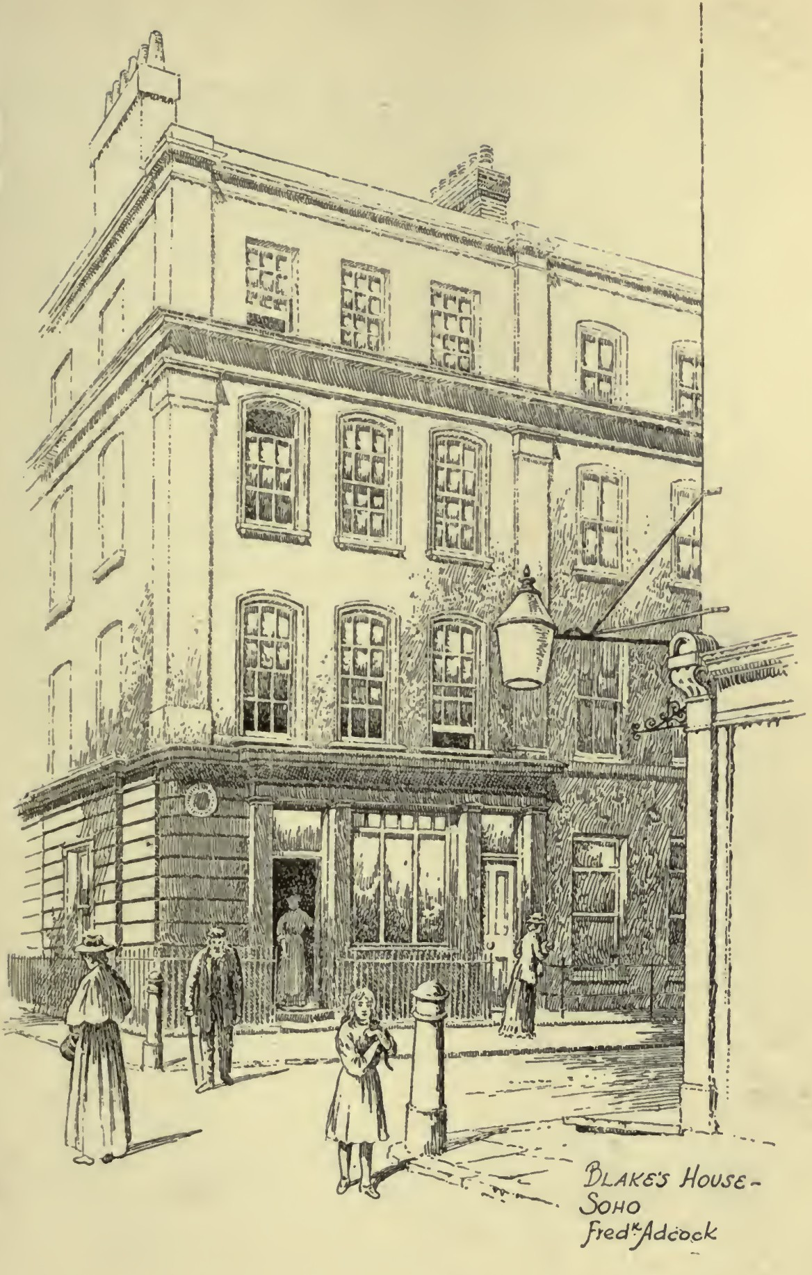 Birthplace of William Blake at No. 28 Broad (now Broadwick) Street, Soho, London. Demolished to make way for a block of flats.